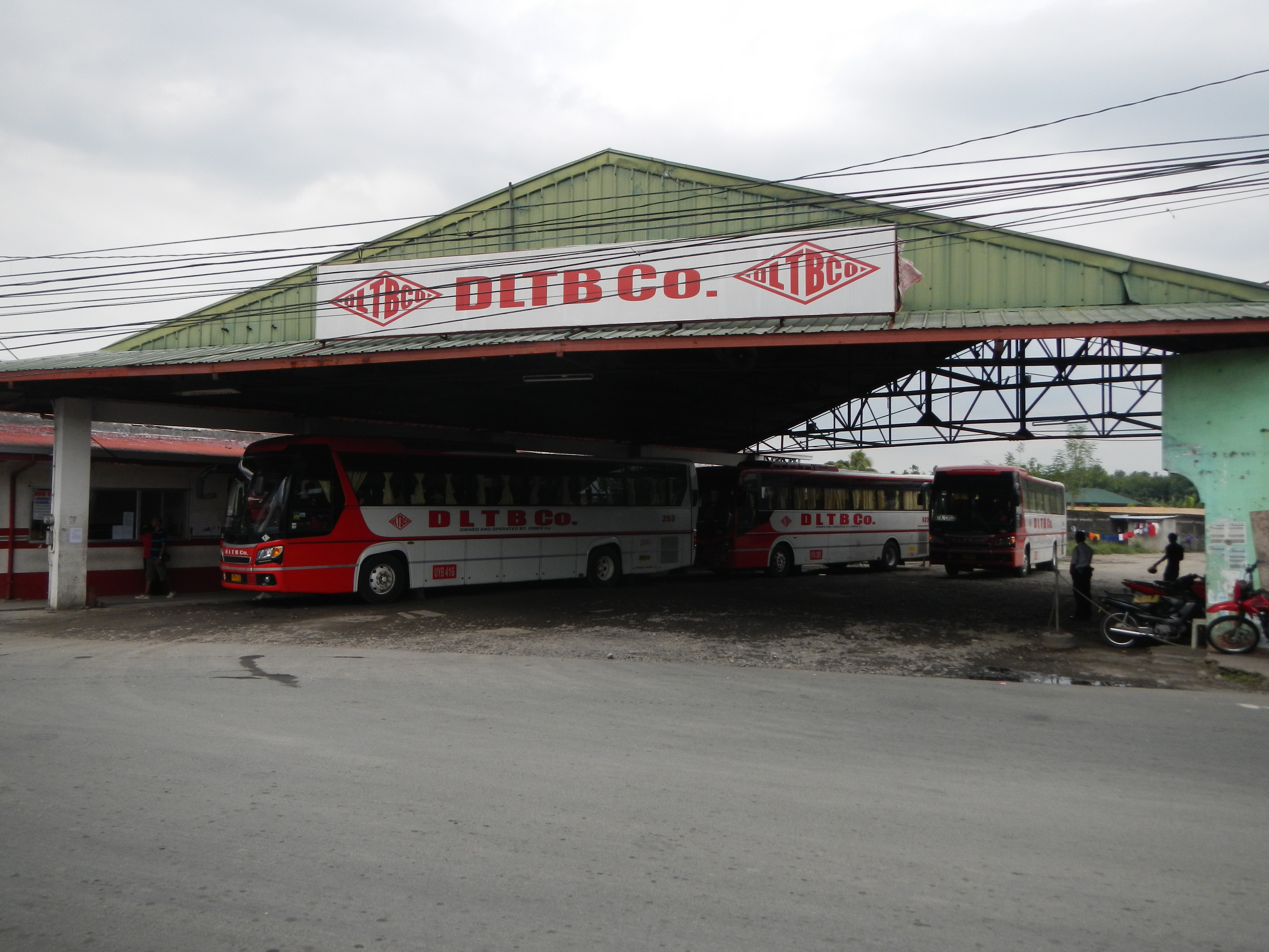 UploadWizard photos -- (General description) -- of --DLTBCo[1] DLTB bus company -- Santa Cruz, Laguna[2] (a first class urban municipality in the province of Laguna,[3]Philippines, the capital town of the province of Laguna, latest census, it has a population of 101,914 people in 19,627 households, situated on the banks of the Santa Cruz River[4] which flows into the eastern part of Laguna de Bay[5] politically subdivided into 26 barangays.Website [6] Coordinates: 14°15'8"N 121°24'15"E)